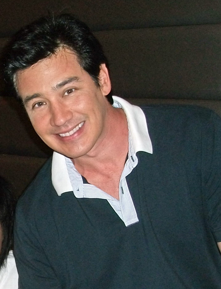 Willy McIntosh at Central World